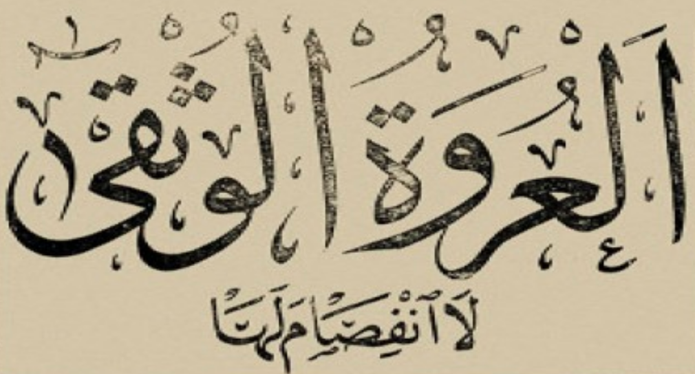 Logo of the Arabic magazine Al-Urwah al-Wuthqa, written in Thuluth script, with the slogan "la infisama laha" or "there is no break in it."